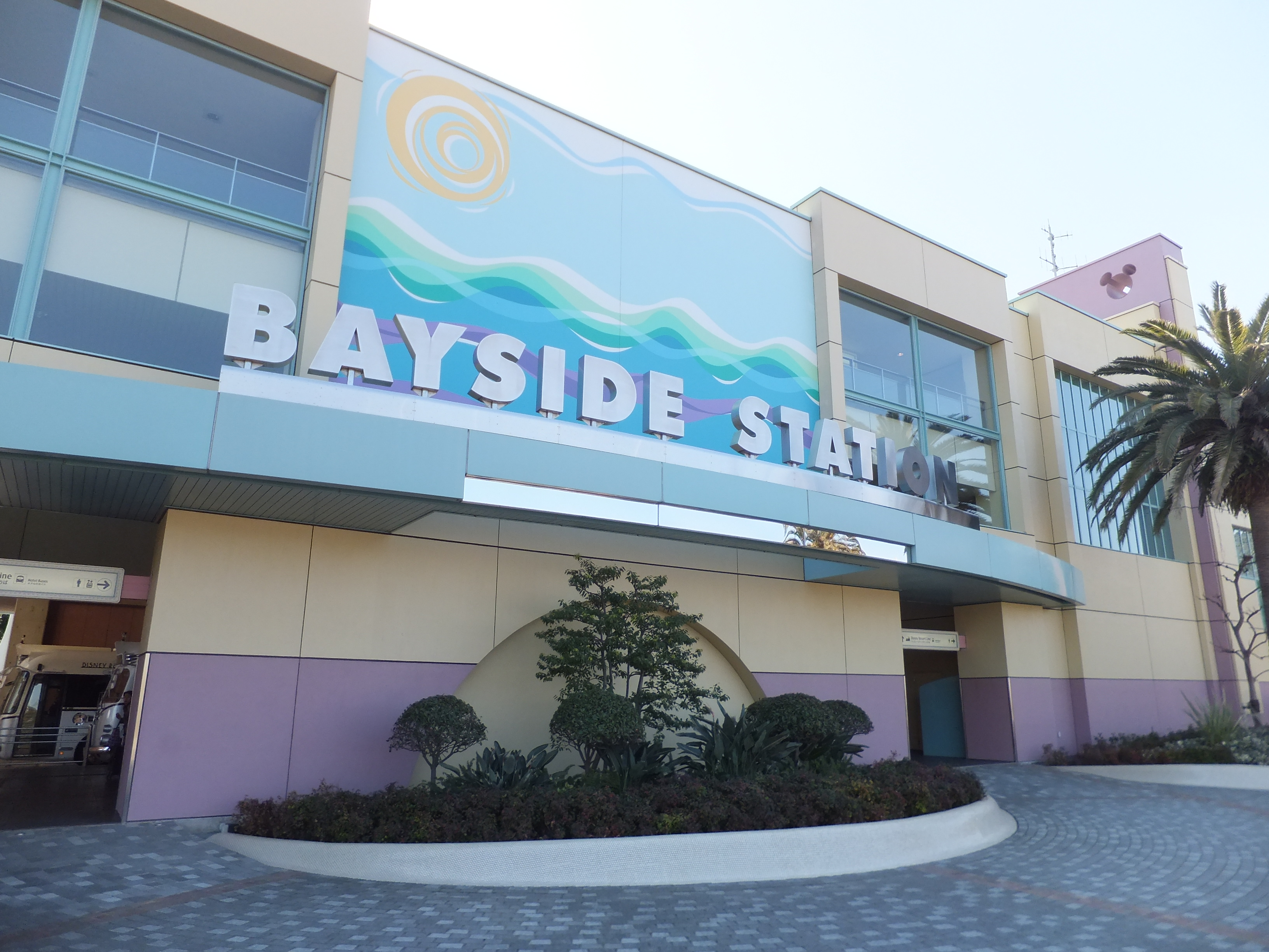 Bayside Station on the Disney Resort Line in Japan